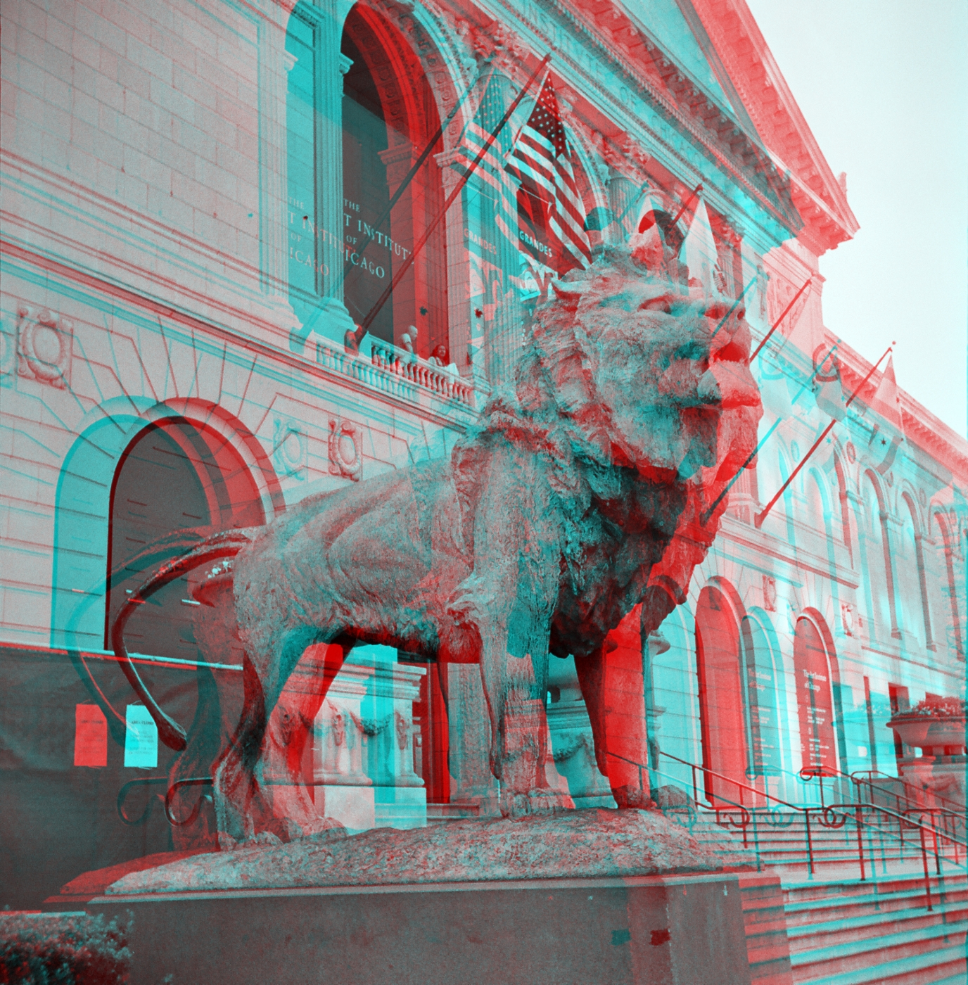 Anaglyph 3-D photo of Edward Kemeys's lion statue outside the Art Institute of Chicago, in Illinois.